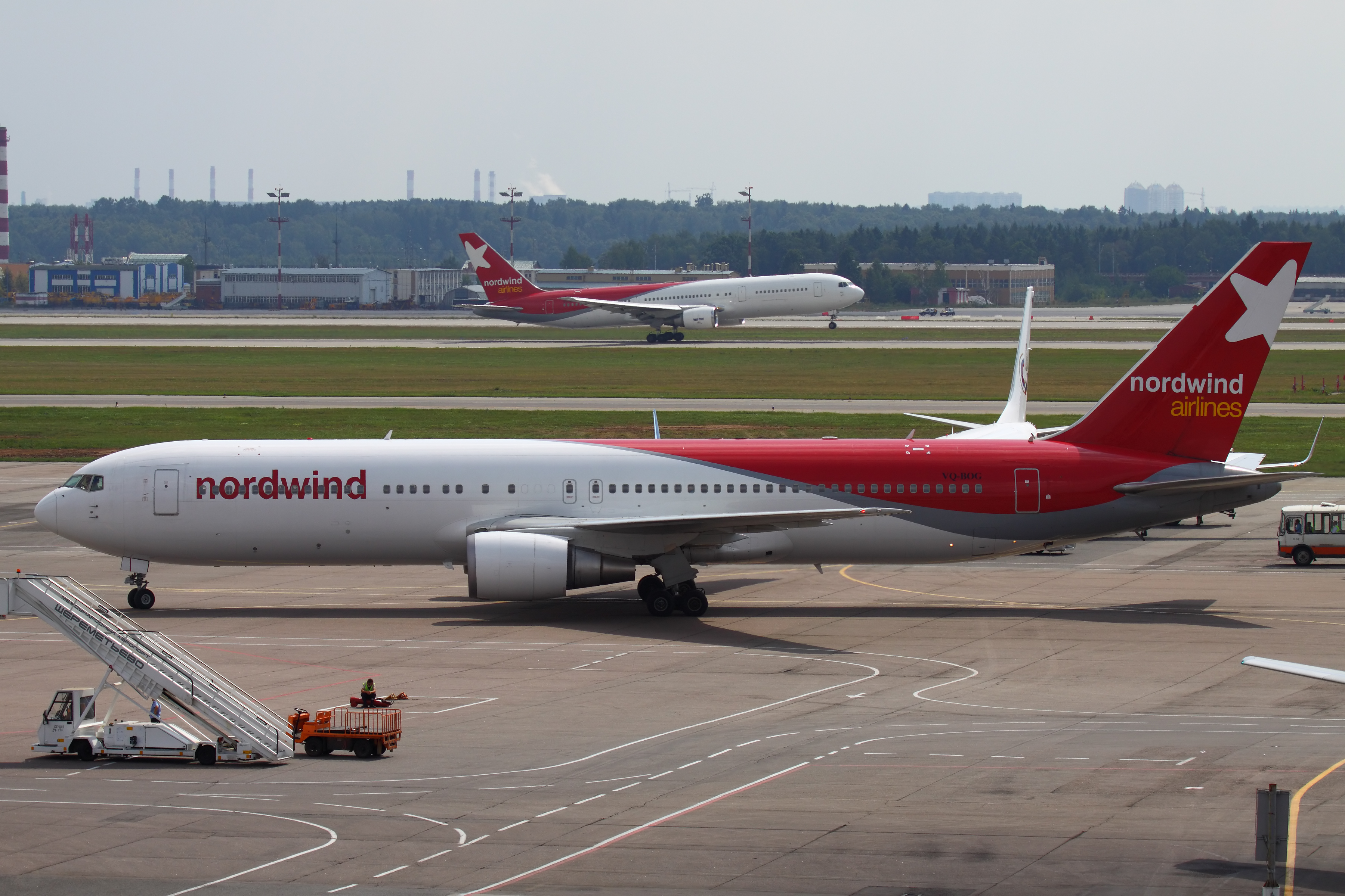 Nordwind Airlines B767-300 reg. VQ-BOG is taxiing to the parking while company B767-300 reg. VQ-BPT is taking off runway 25L at Moscow-Sheremetyevo airport.